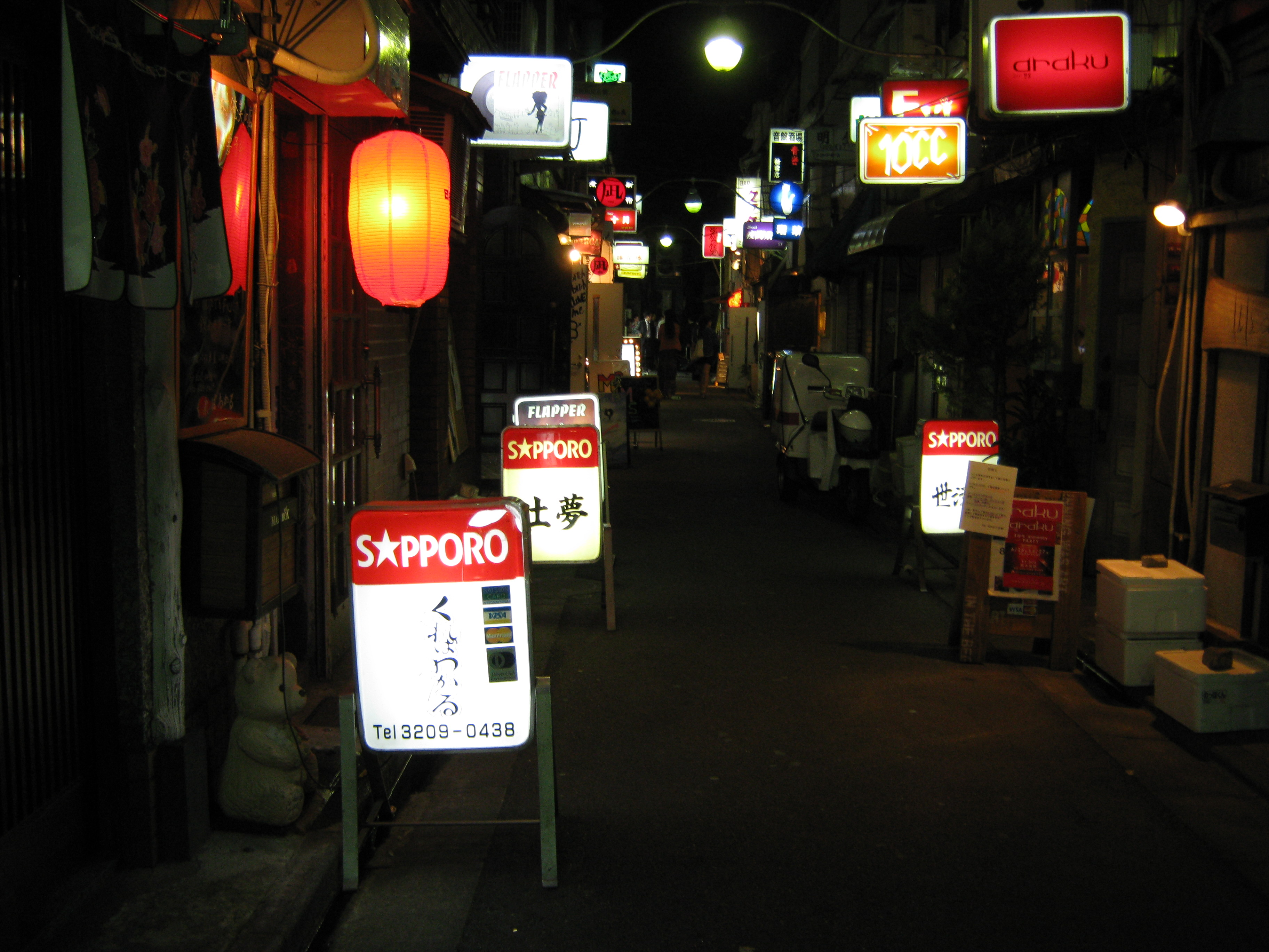 G2 Street is located in Shinjuku Ward, Tōkyō Metropolis.